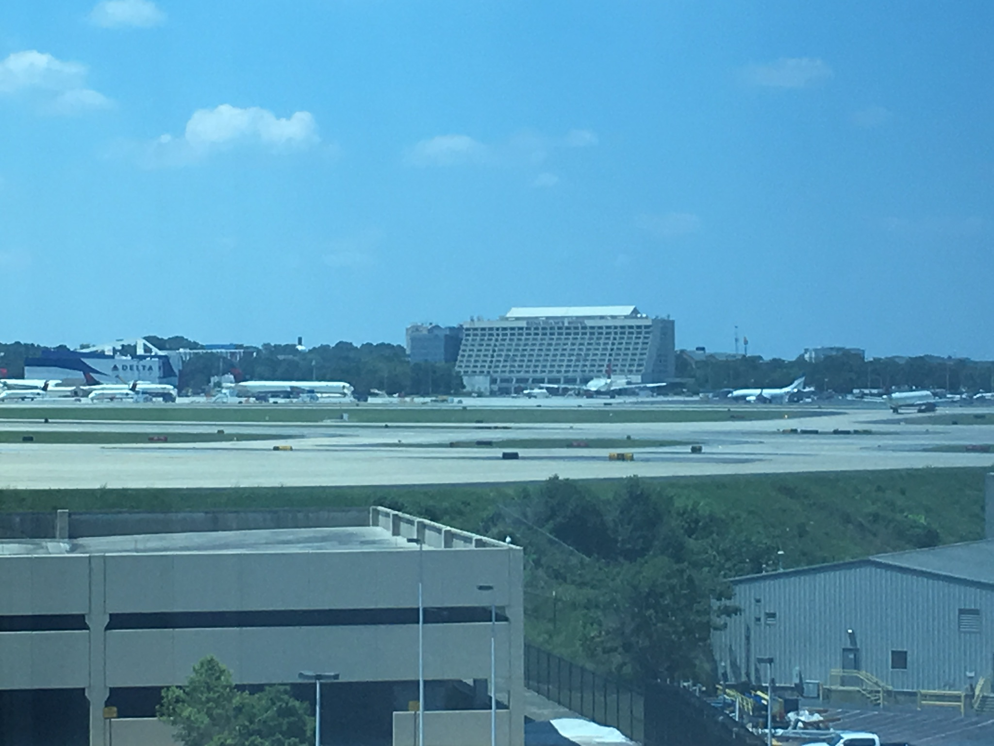 Renaissance Concourse Hotel Atlanta Airport